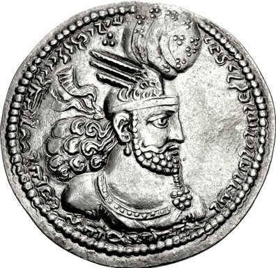 Coin of Bahram II.